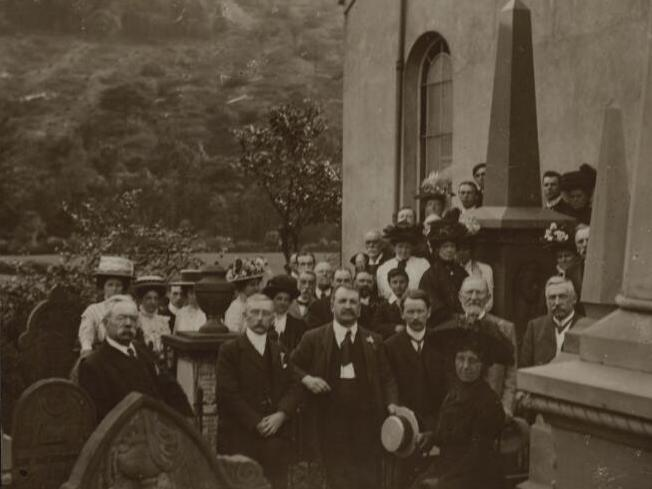 A portrait from the Welsh Portrait Collection at the National Library of Wales. Depicted person: Cwmni o Gymmrodorion Caerdydd ar lan bedd Islwyn'